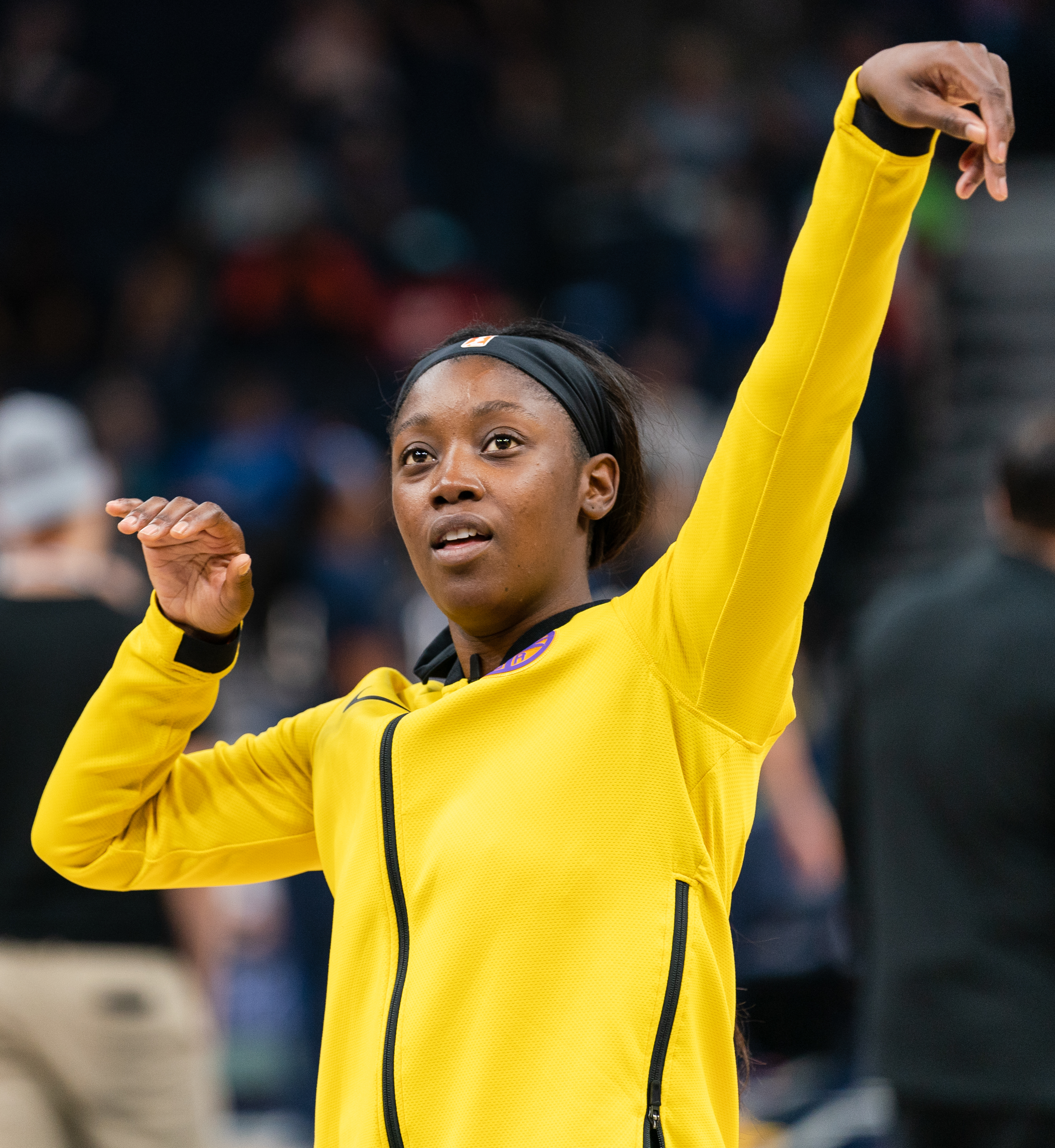 Los Angeles player Alexis Jones during warmups in a game against the Minnesota Lynx